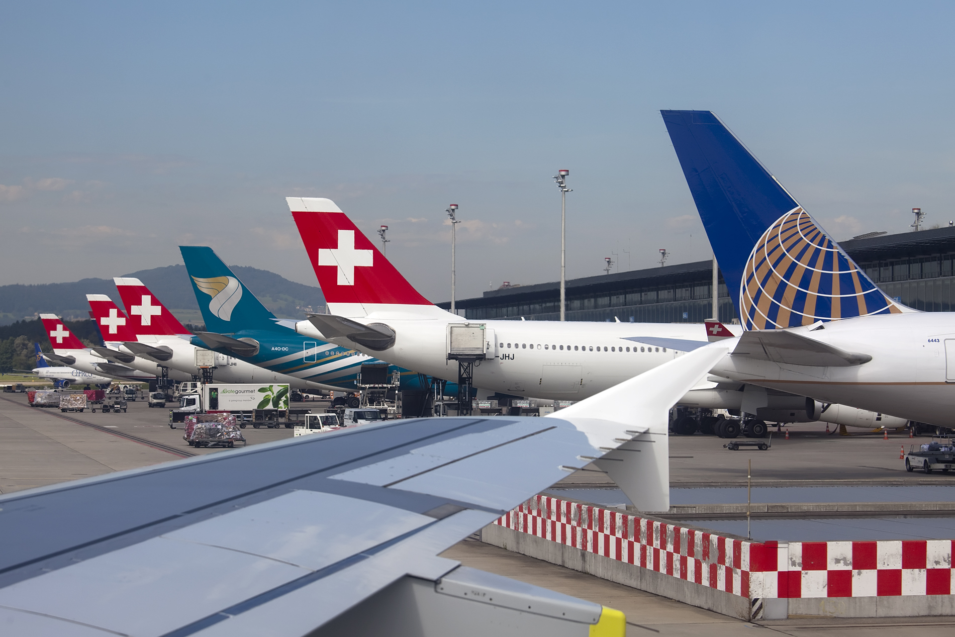 captured through the window from Swissair A319